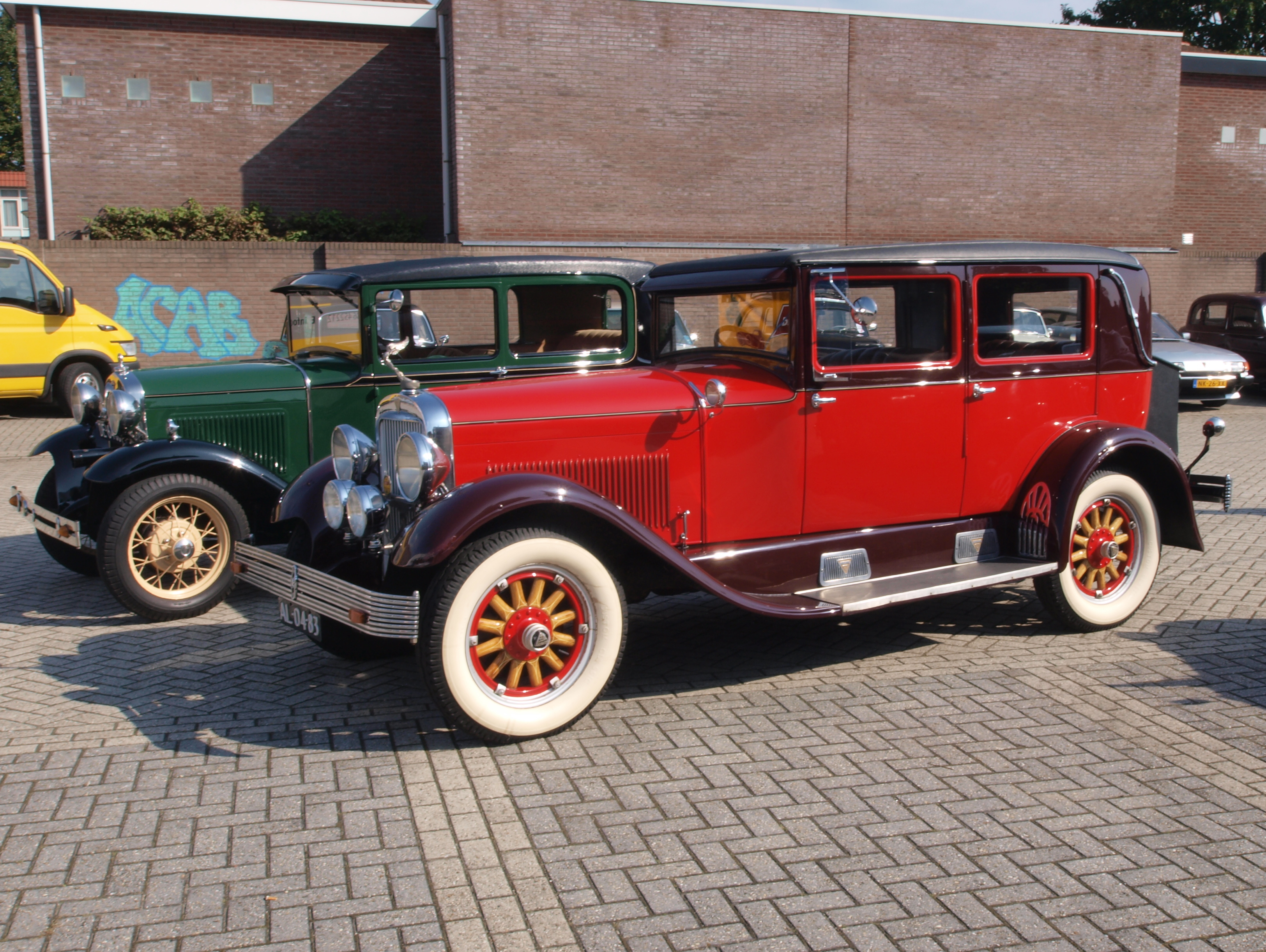 Photographed at the Classic Vehicle meeting 'Klassiek Mechaniek Zeeland 2011', The Netherlands.